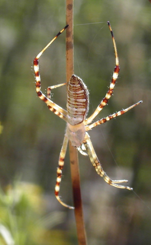 Banded argiope (Argiope trifasciata) taken at White Slough near Lodi, California.